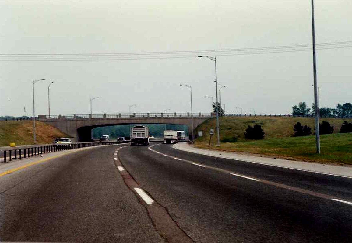 The six lane Highway 401 curves beneath Meadowvale Road in Scarboough in 1989. Soon after this photo was taken, the highway was widened to 14 lanes.